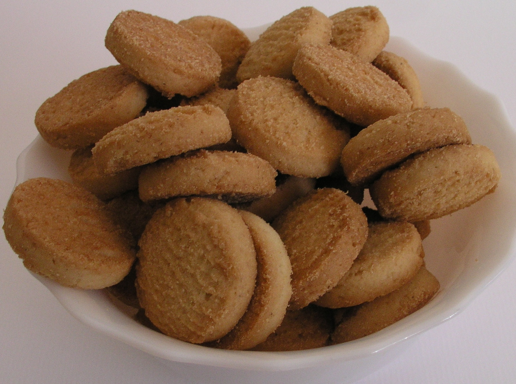 Kammerjunkere, Danish biscuits with vanilla taste